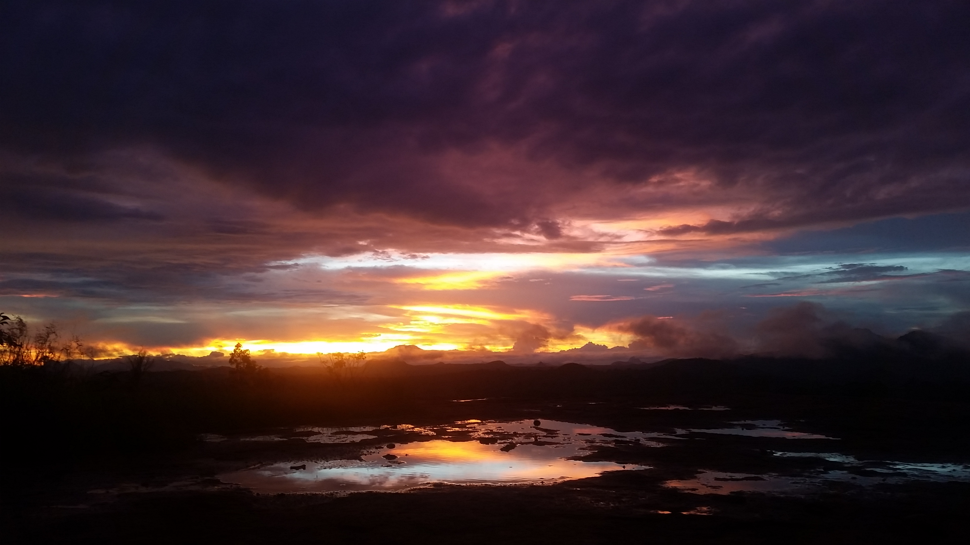 Sunset in Ile (Errego), Zambezia, Mozambique. Photo taken in January 2020 during the raining season. Photo taken facing to the west, behind the Ile-Sede health center.